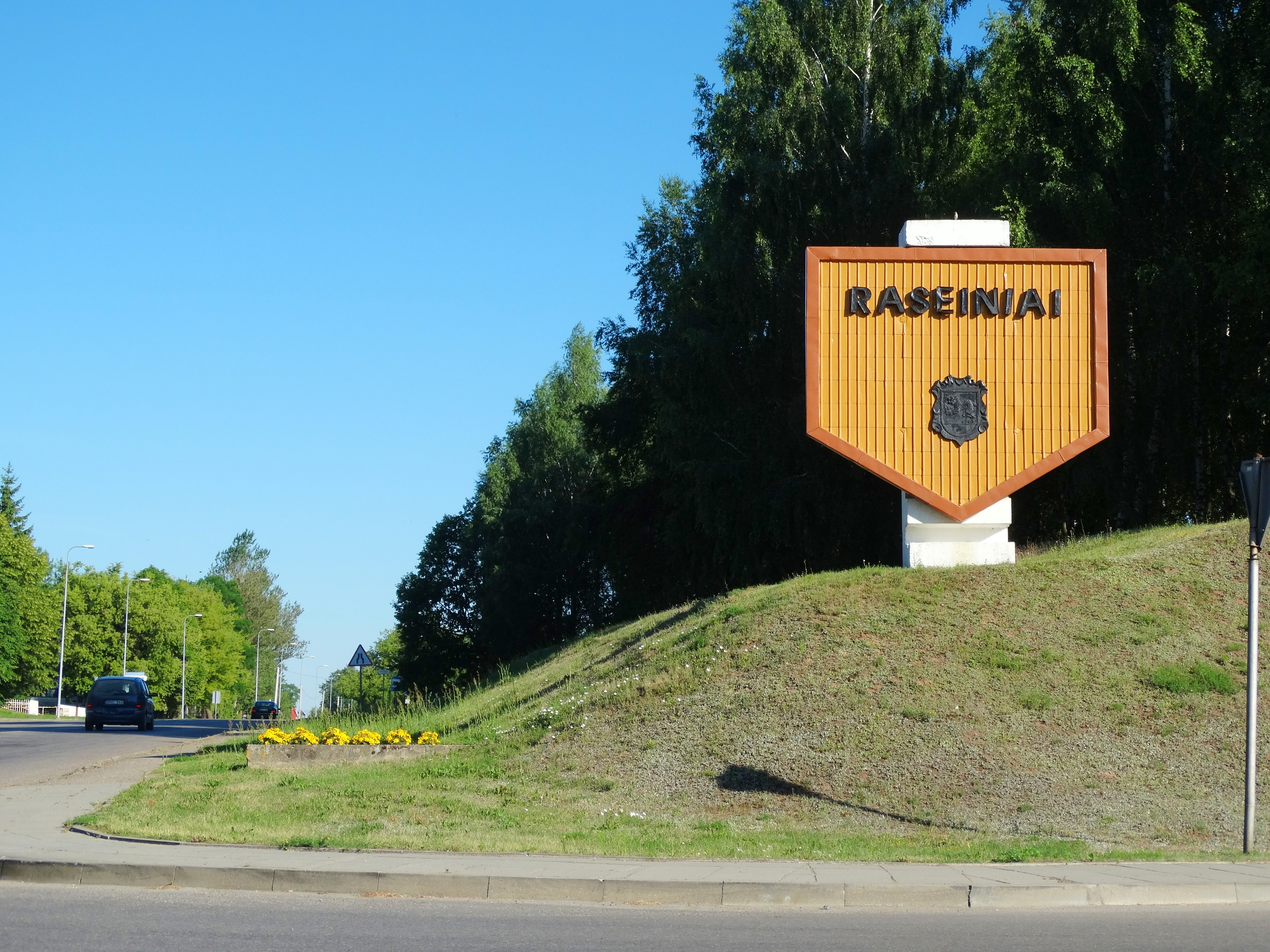 Raseiniai, Lithuania